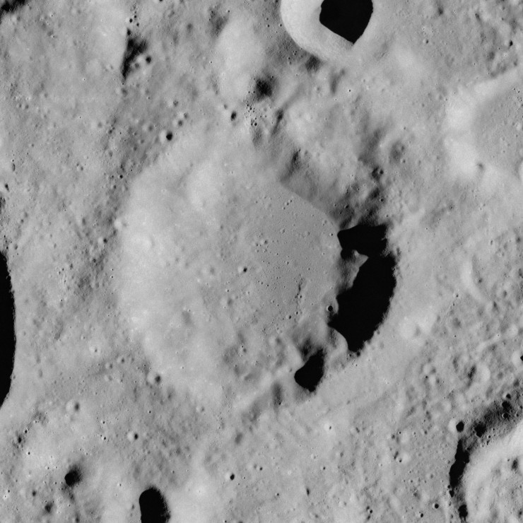 Tisserand, on the moon. Camera altitude 234 km, sun elevation 20 deg.